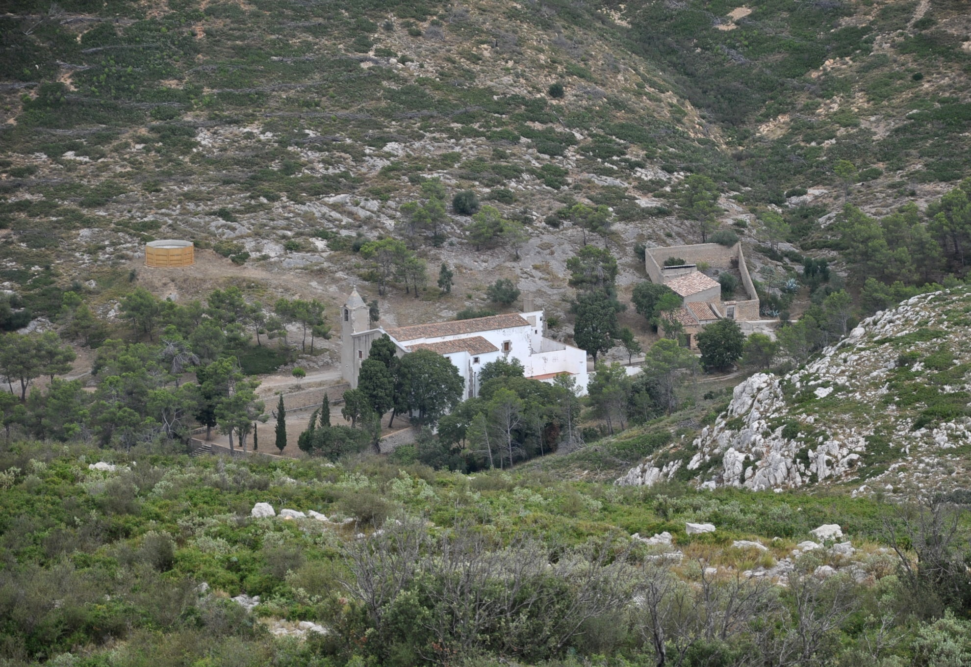 Chapel (hermitage) of Santa Caterina in the Montgrí Massif (Baix Empordà, Catalonia, Spain).